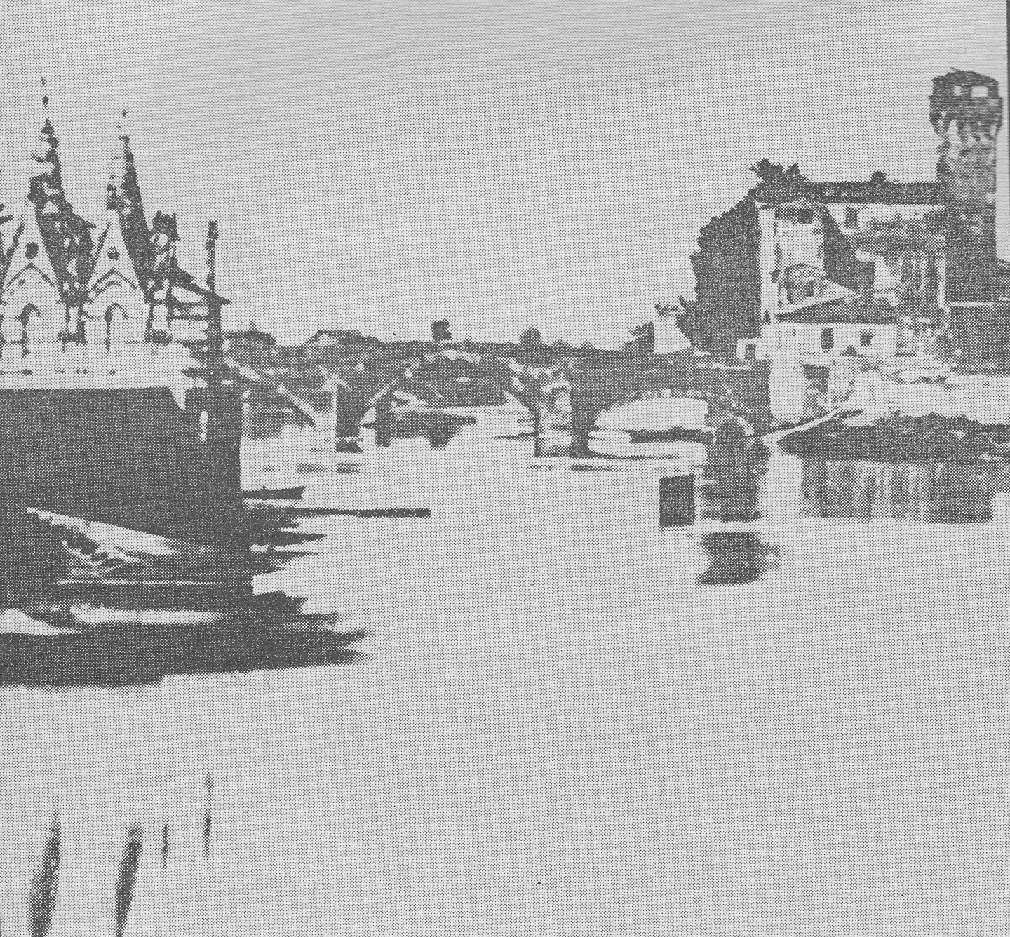 Old Degazia Bridge in Pisa, Tuscany, Italy.